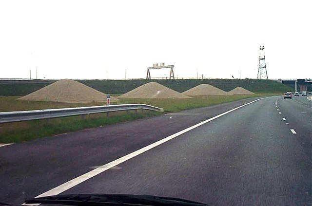 Ferrybridge Henge, a close up shot.